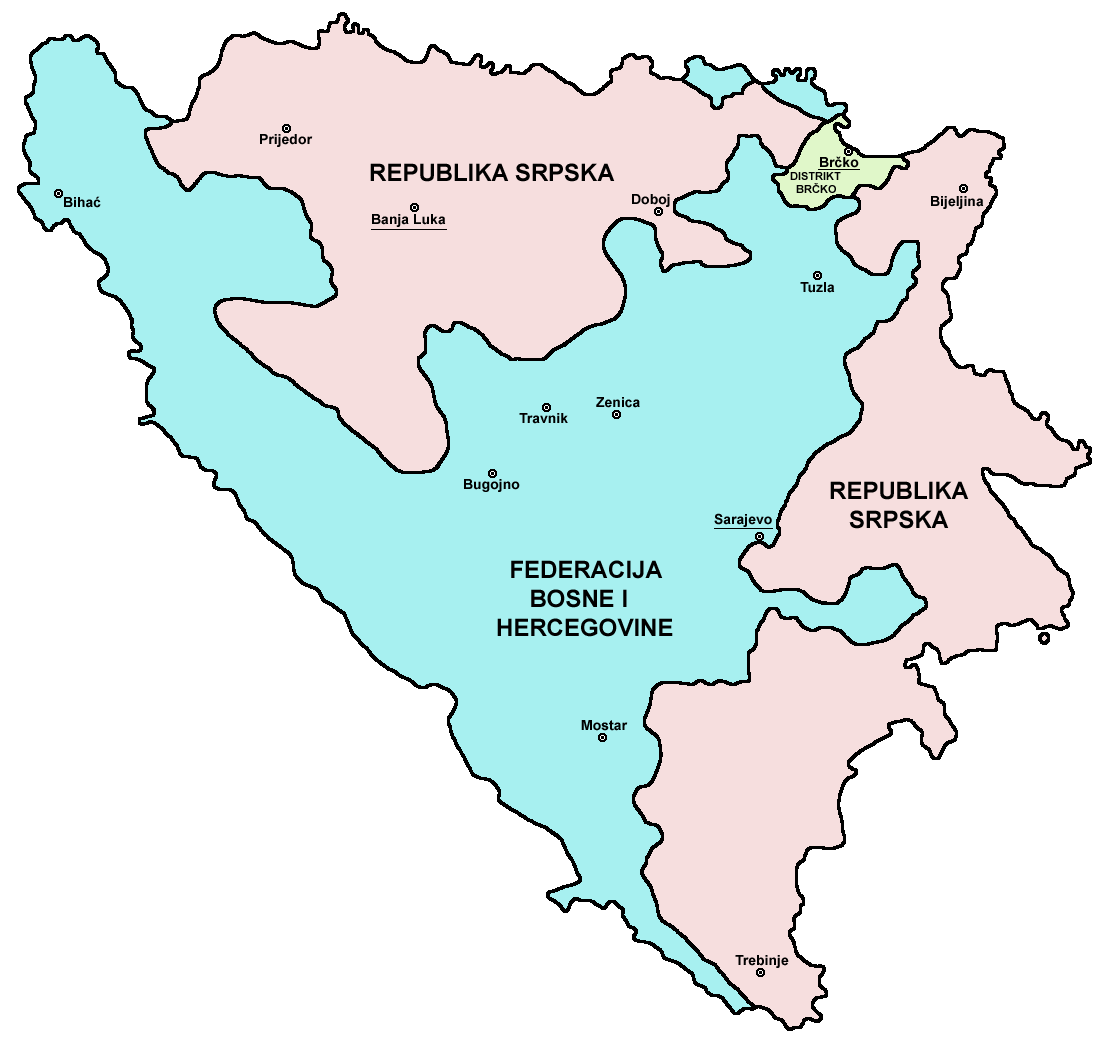 Map showing political division of Bosnia and Herzegovina: Federation of Bosnia and Herzegovina, Republika Srpska and Brčko District.